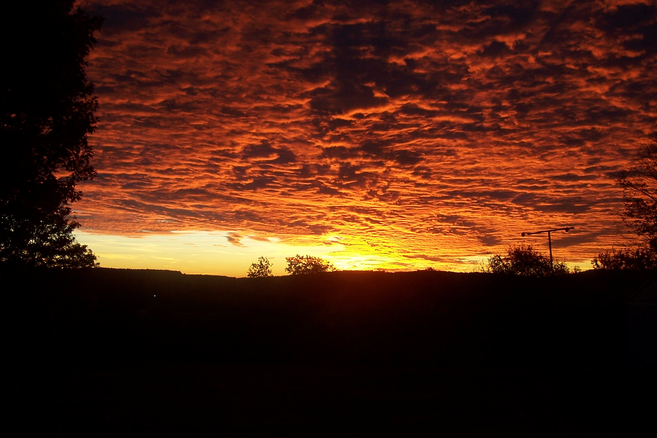 Sunrise in upstate New York, United States